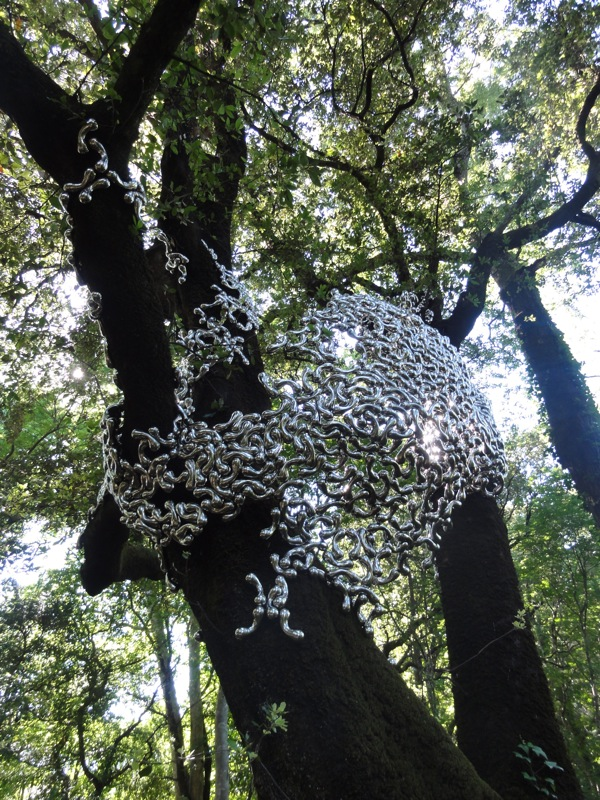 Approx. 1400 welded steel modules, Permanent installation Parco di Villa Celle, Pistoia, Italy